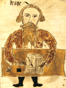 An illustration of the god Bragi, from an Icelandic 17th century manuscript.